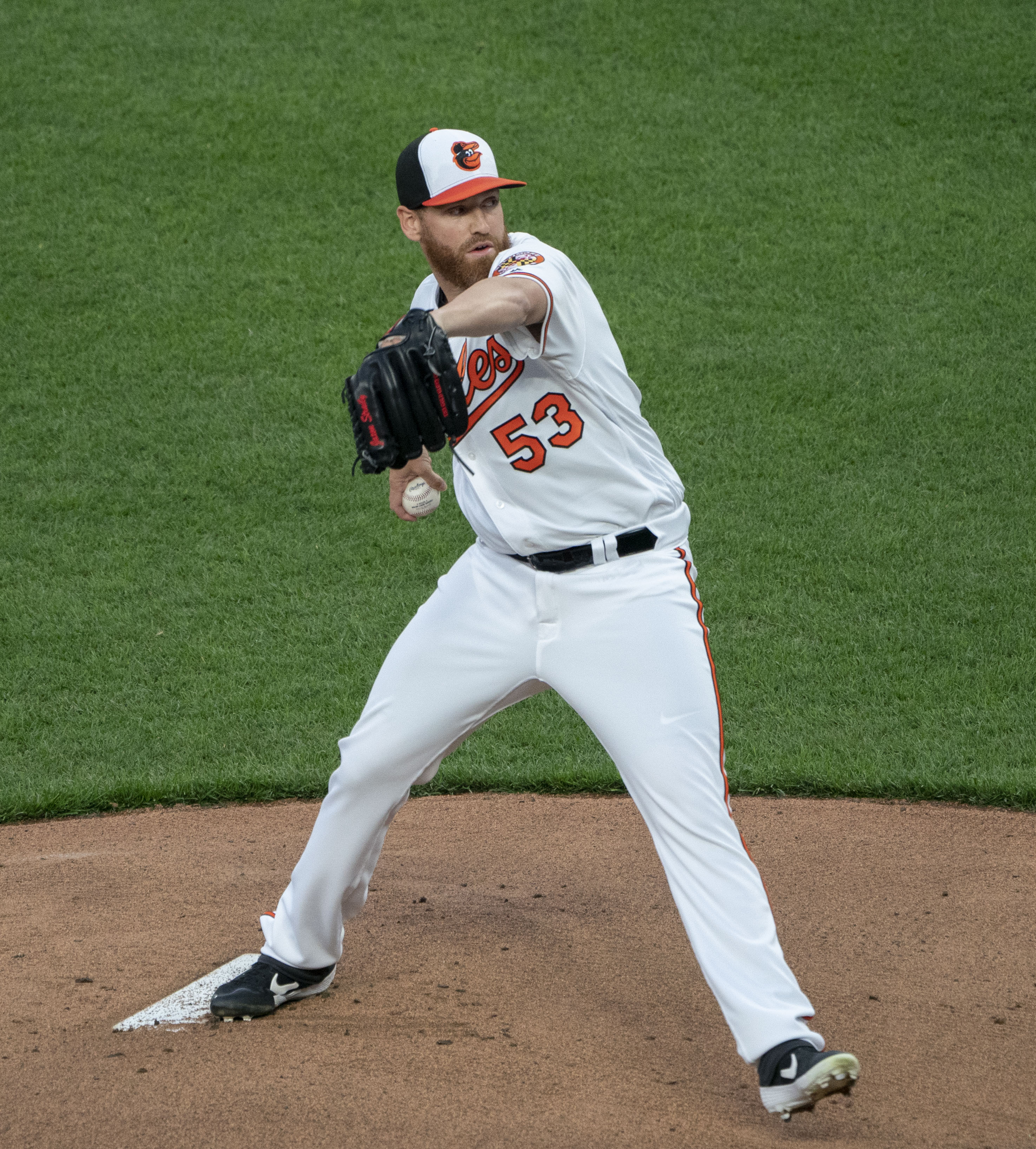 Athletics at Orioles 4/10/19